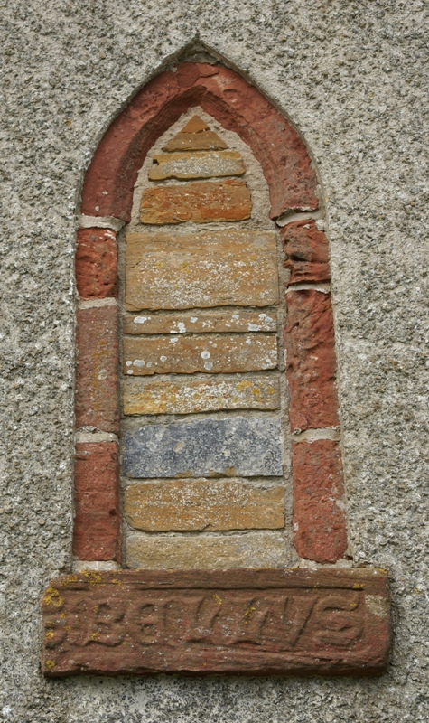 Blocked lancet window in the south wall of St Magnus' Church, Birsay, Mainland, Orkney, Scotland